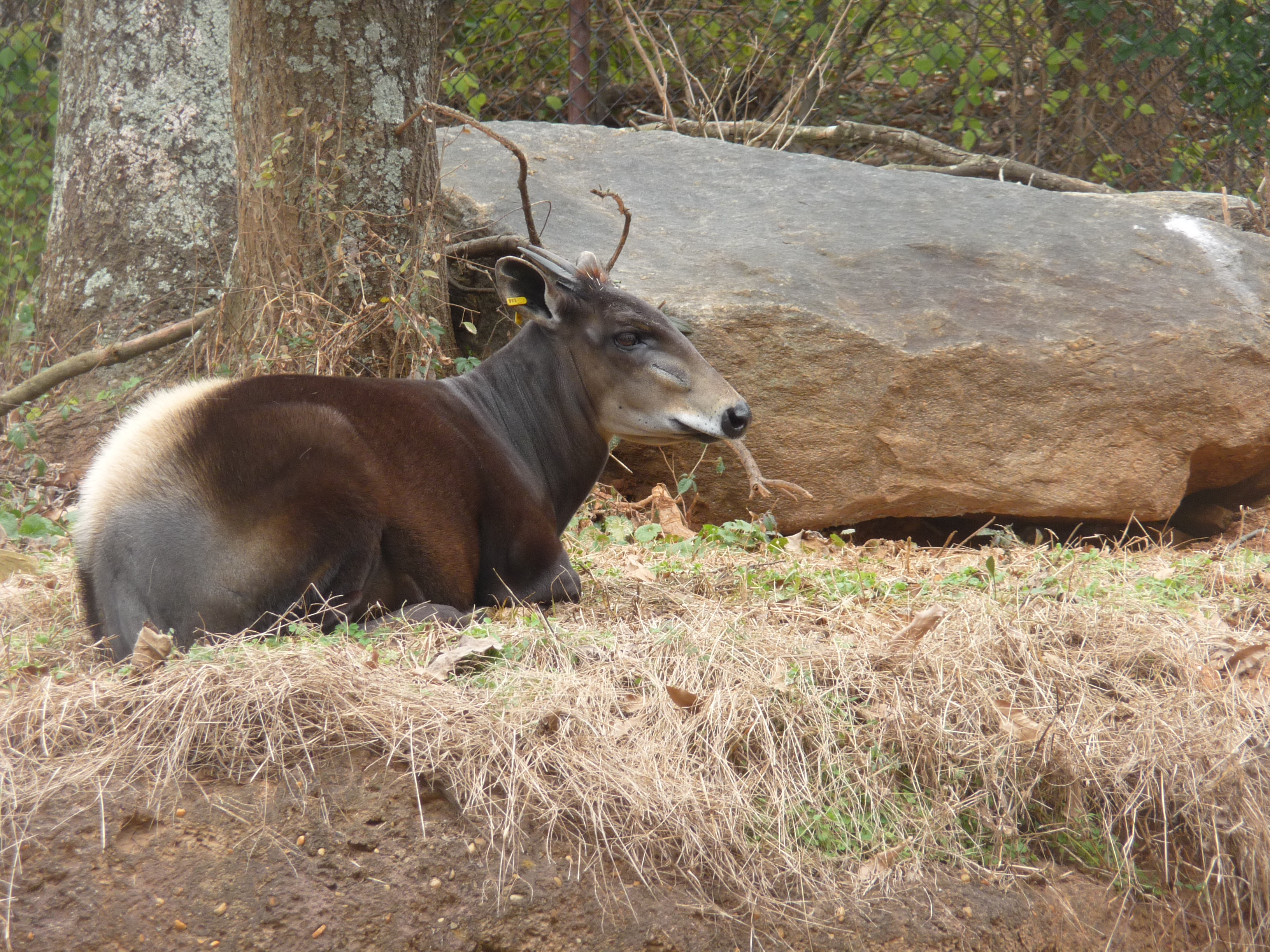 Yellow-backed Duiker (Cephalophus silvicultor) in Zoo Atlanta